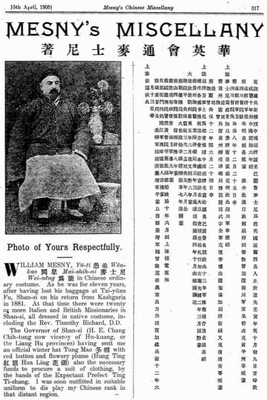 Taken from Mesny's Miscellany, 1905. Picture of him in 1881. No copyright. With kind permission of Jim Thompson who put all this material onto a CD for me.